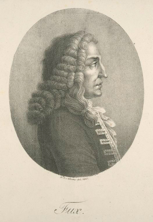 Johann Joseph Fux (ca. 1660-1741), Austrian composer